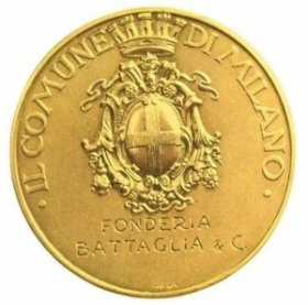 Ambrogino d'oro